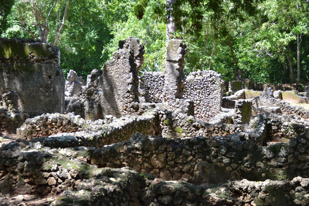 Swahili Town near Malindi, built in the 13th Century